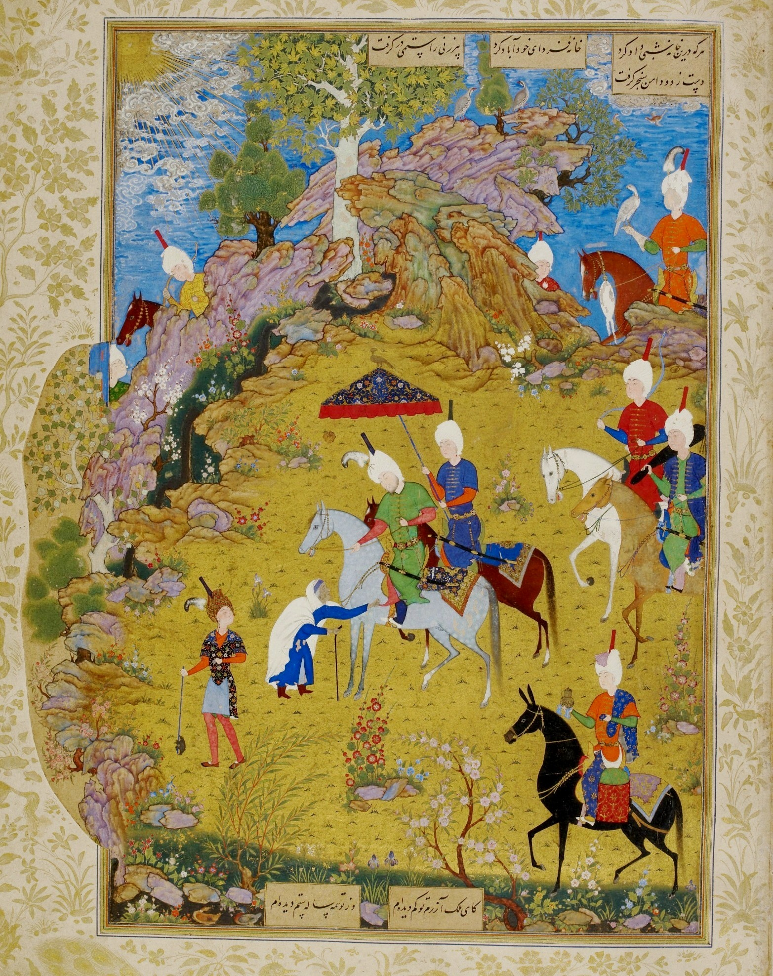 Sultan Muhammed, from the Khamsa of Nizami, British Library, Or. 2265, f.18r.. "The Old Woman complaining to Sultan Sanjar". 1539-43, with border replaced in the 17th C